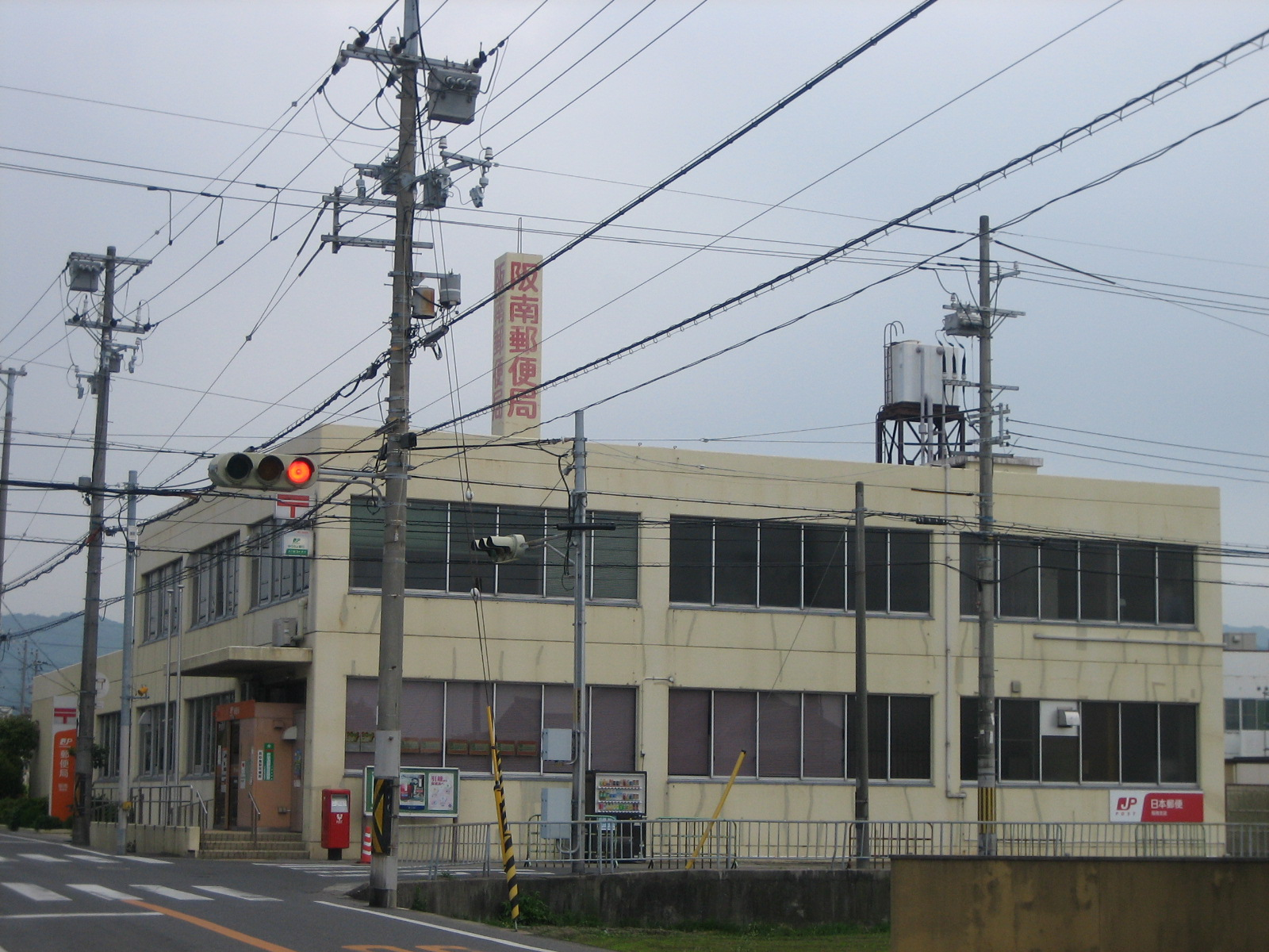 Hannan post office in Osaka, Japan